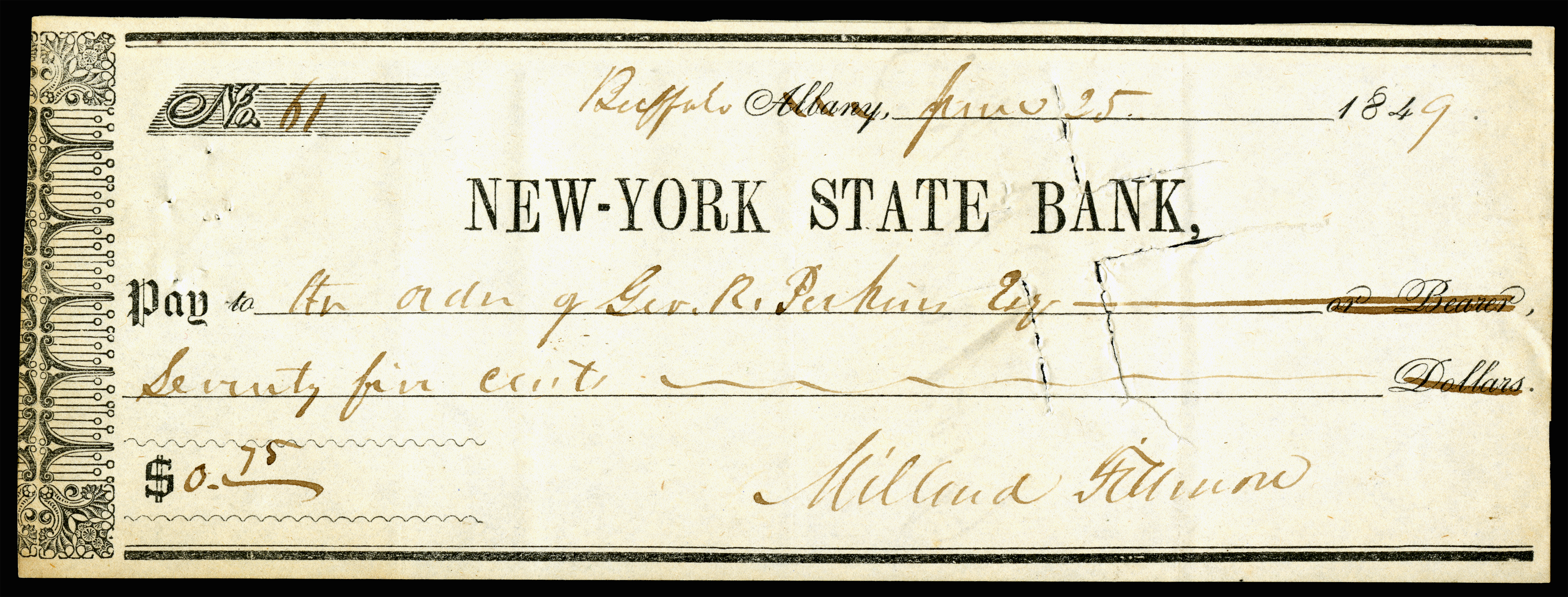 A signed check by Millard Fillmore (13th President of the United States) while serving as Vice President of the United States.